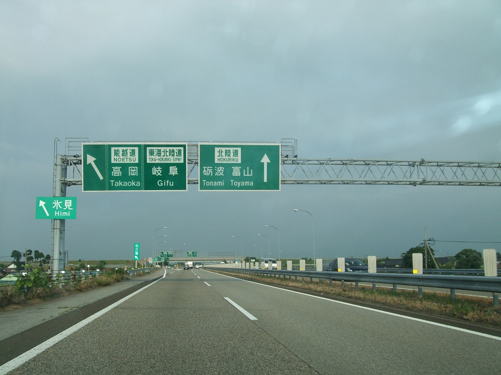 Oyabe-Tonami Junction on the Hokuriku Expressway, facing towards Toyama